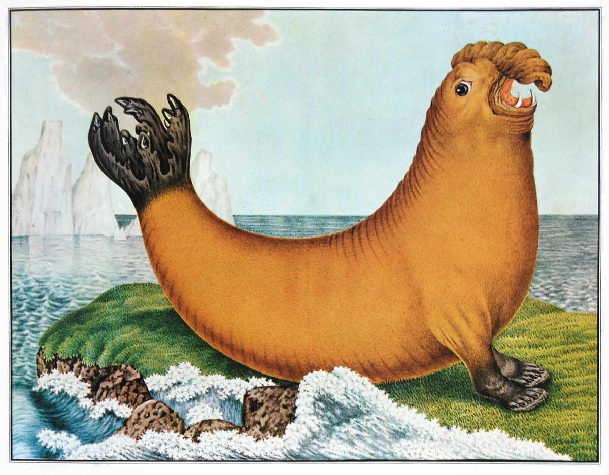 Aquarel from the "Bestiarium"